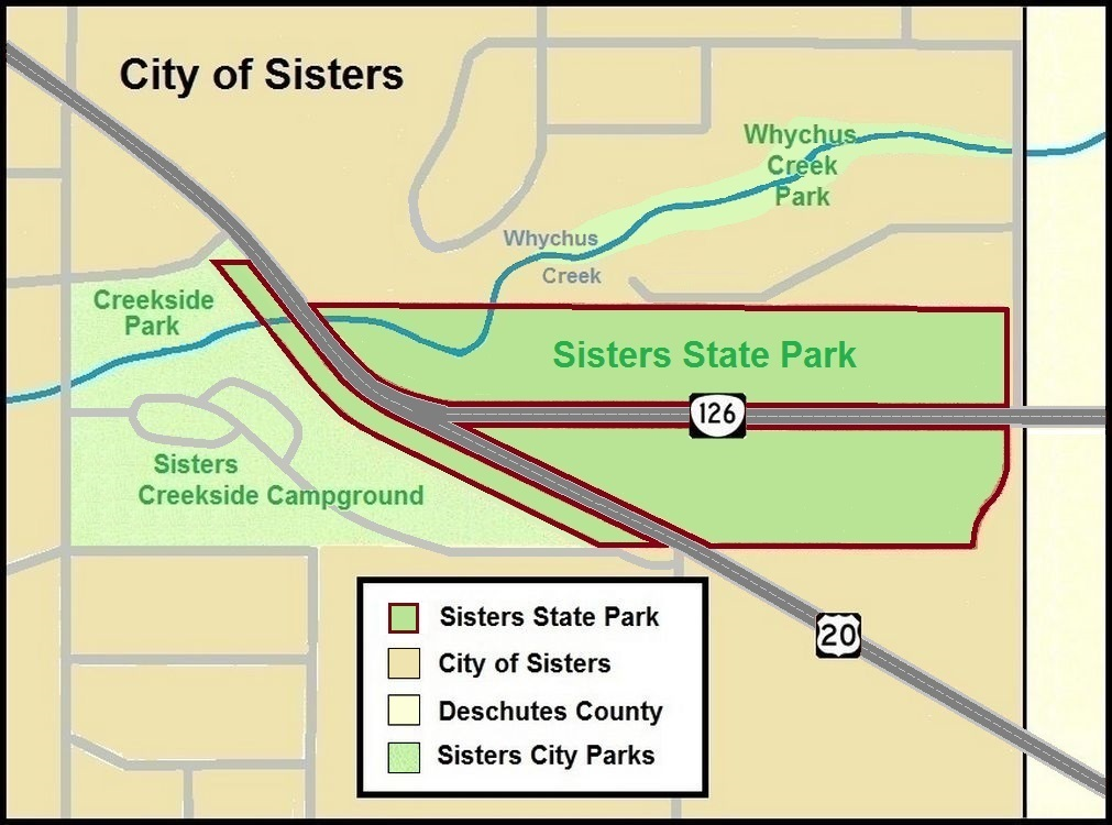 Map of Sisters State Park in Sisters, Oregon. Two adjacent city parks are also shown, Creekside Park (a day-use park) and Sisters Creekside Campground. Nearby Whychus Creek Park (another city park) is also shown.